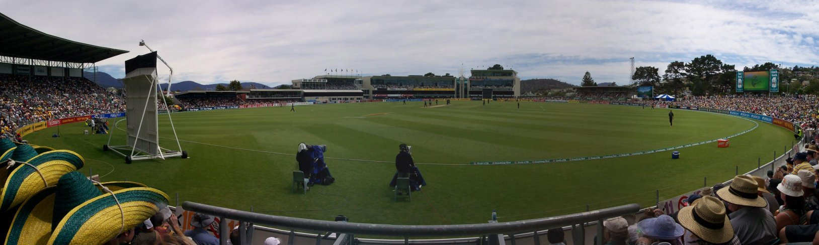 Created by myself (User:Chuq) with photos taken by myself at the Aus v NZ Cricket One-day International at Bellerive Oval on January 14 en:2007.